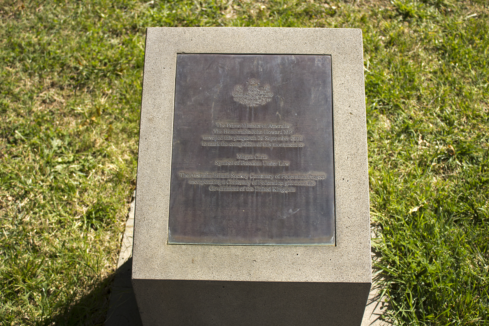 Magna Carta Place plaque in Parkes, Australian Capital Territory.